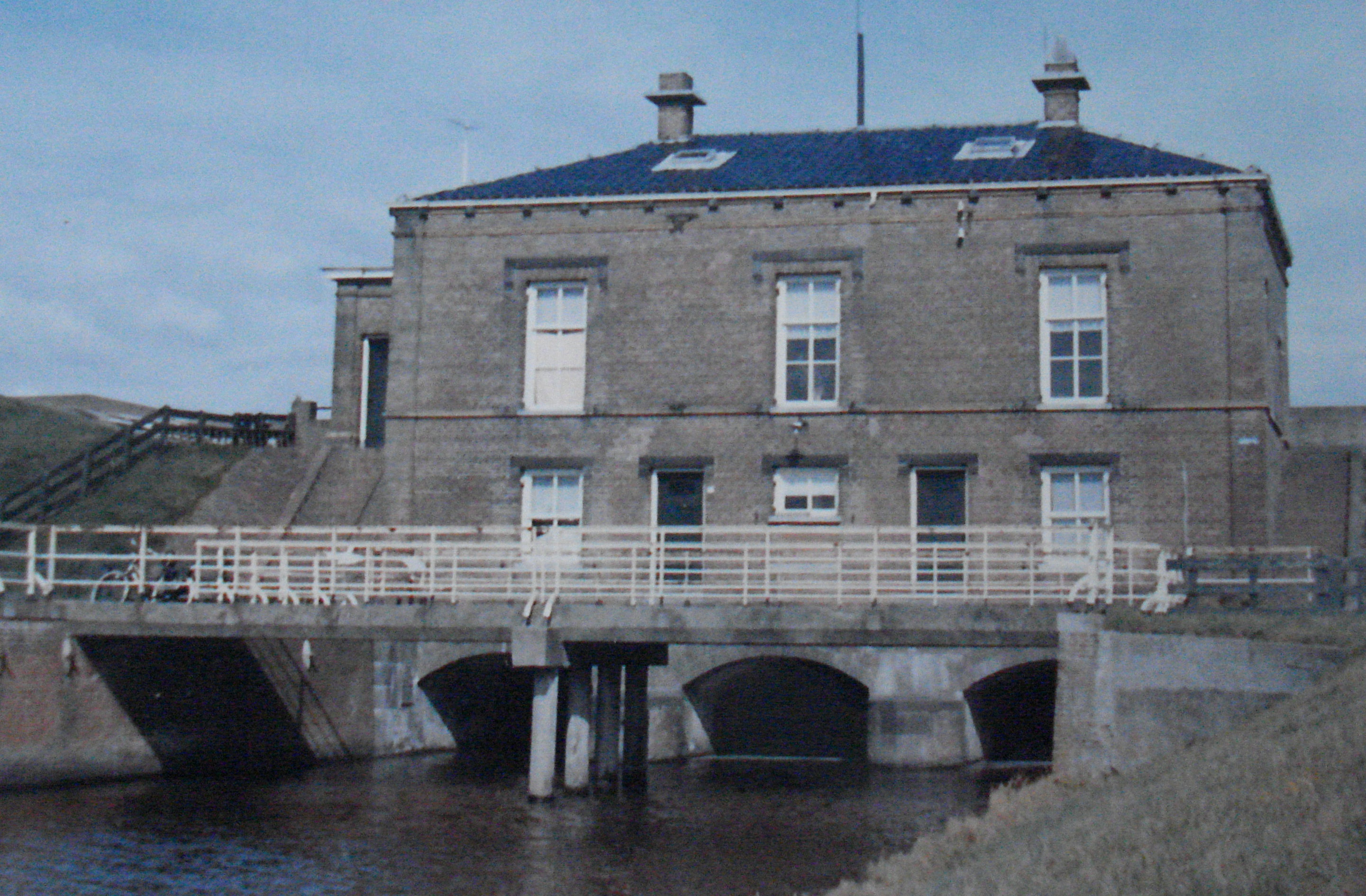 Roptazijl, flood-gates with lockman house 1884-1968